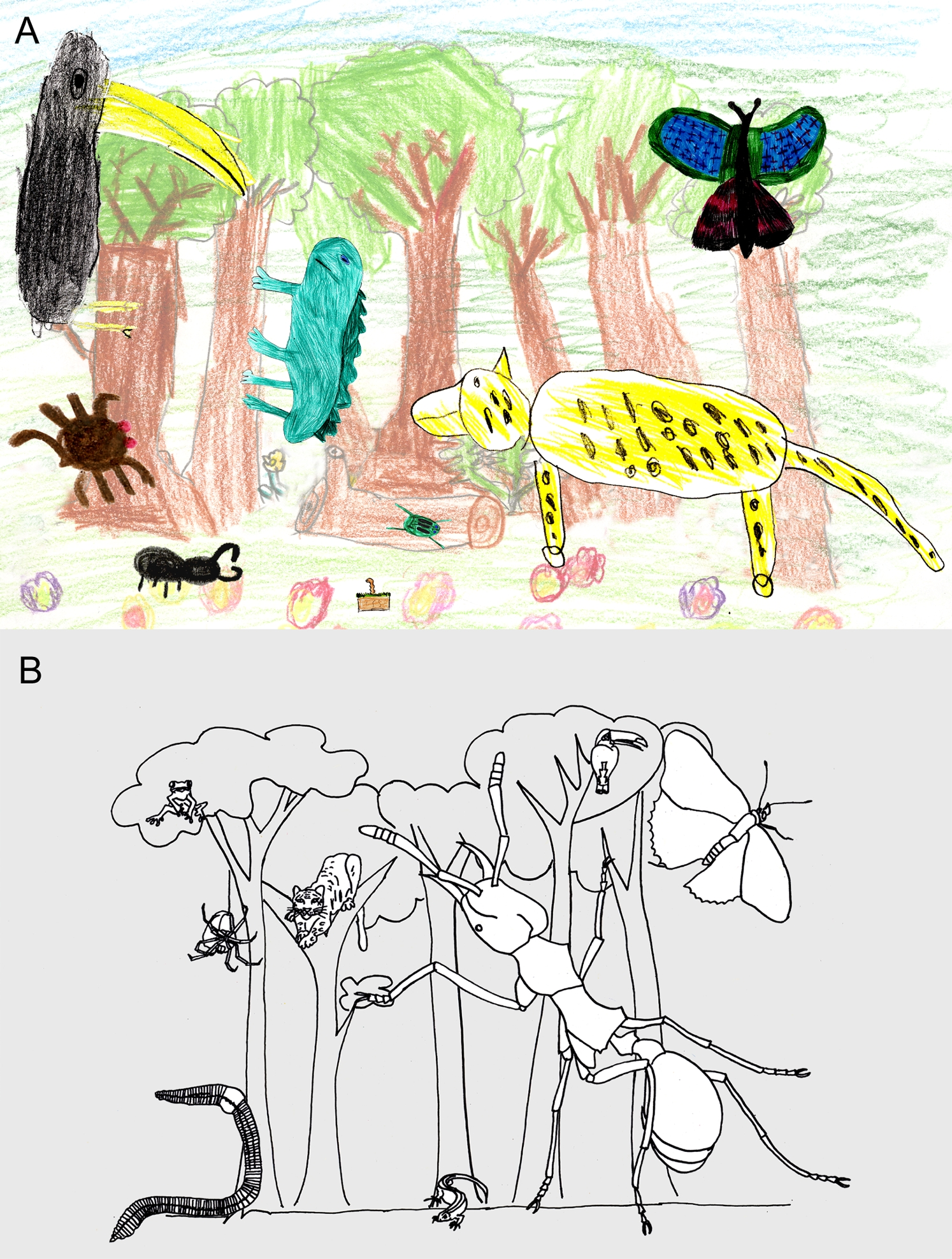 (A) Species scape representing the relative frequency at which primary children (aged three-eleven) drew different taxa and (B) the relative contribution of the taxa to rainforest biomass (following Fittkau & Klinge [7]). Size of the drawings represents the relative contribution of each taxa with the animals each representing: leopard – mammals, toucan – birds, butterfly – non-social insects, lizard – reptiles, spider – spiders, ant – social insects, frog – amphibians, and worm – annelids.